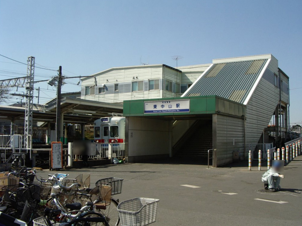 Higashi-Nakayama Station on Keisei main line.